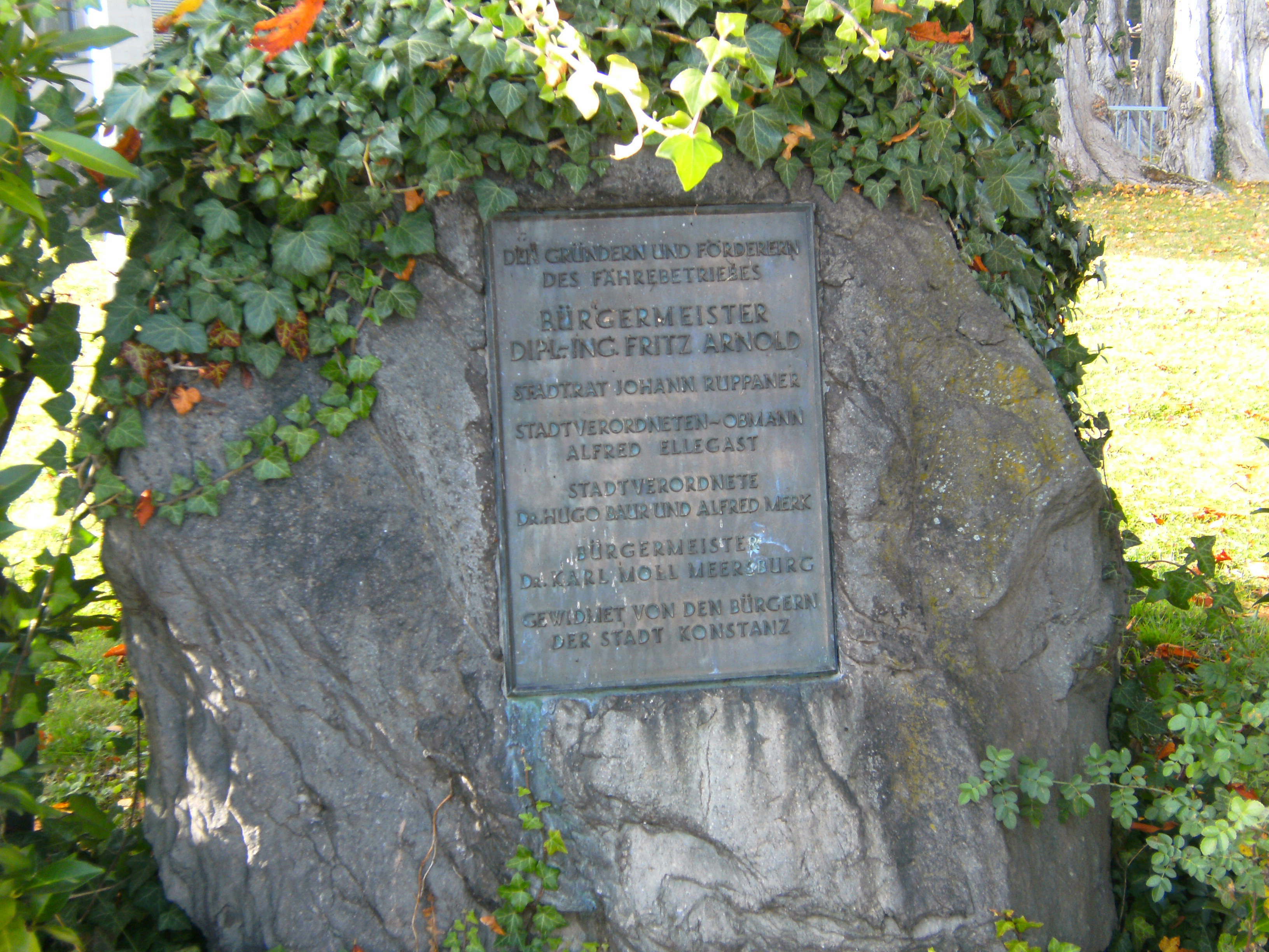 Commemorative stone for Fritz Arnold (Politiker) at ferry port in Konstanz-Staad, Germany.